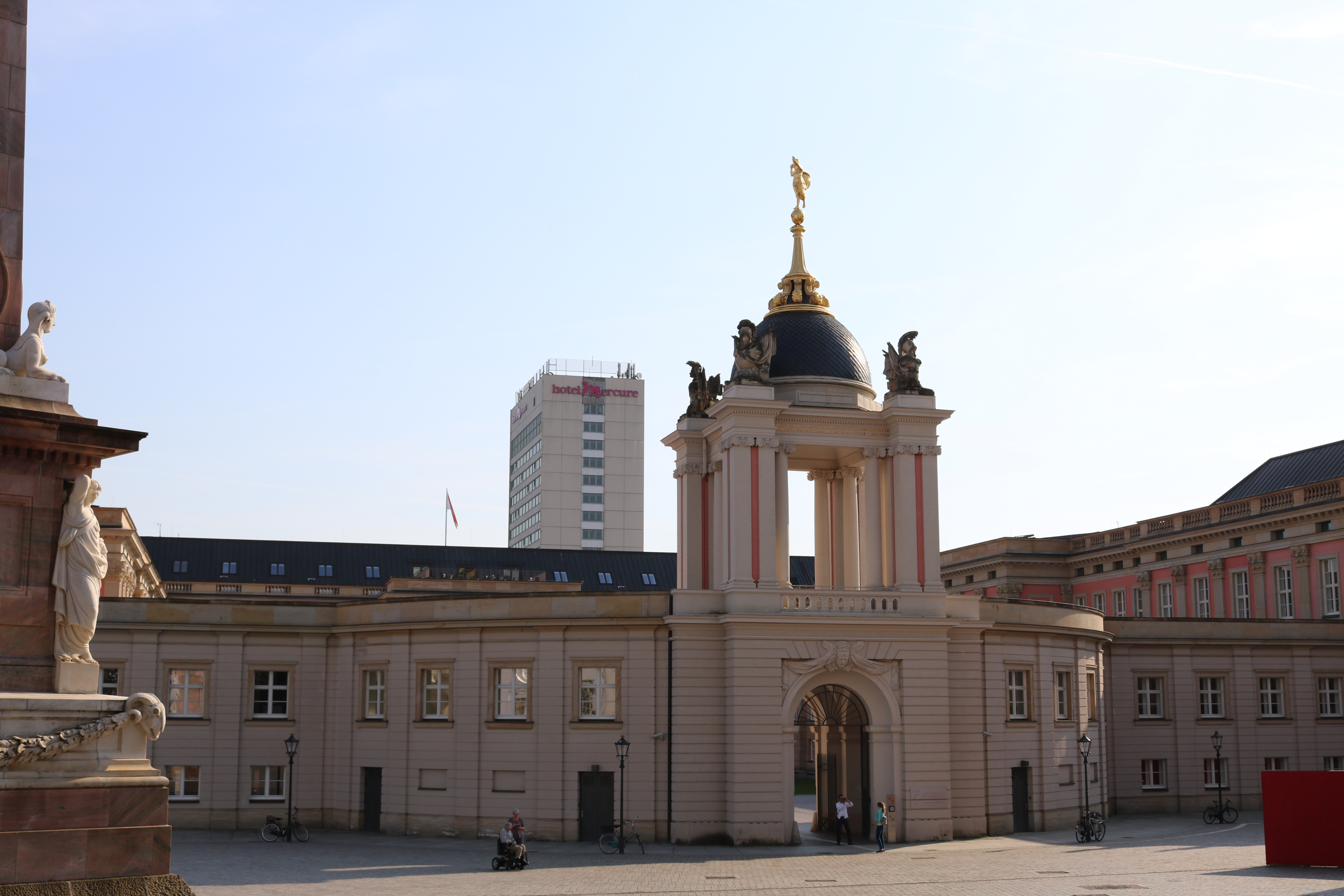 Back entrance to the Landtag Brandenburg from the Alter Markt side. April 2018.